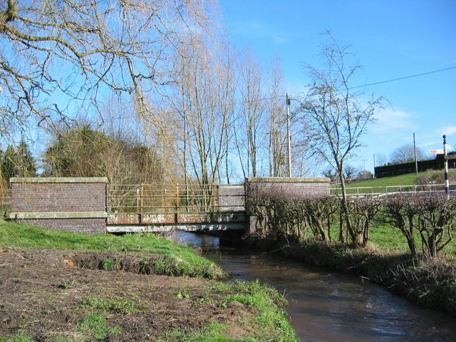 Bridge at Higher Wych, near to Higher Wych, Cheshire, Great Britain. Metal bridge over Wych Brook at the small village of Higher Wych. View from by the Methodist church